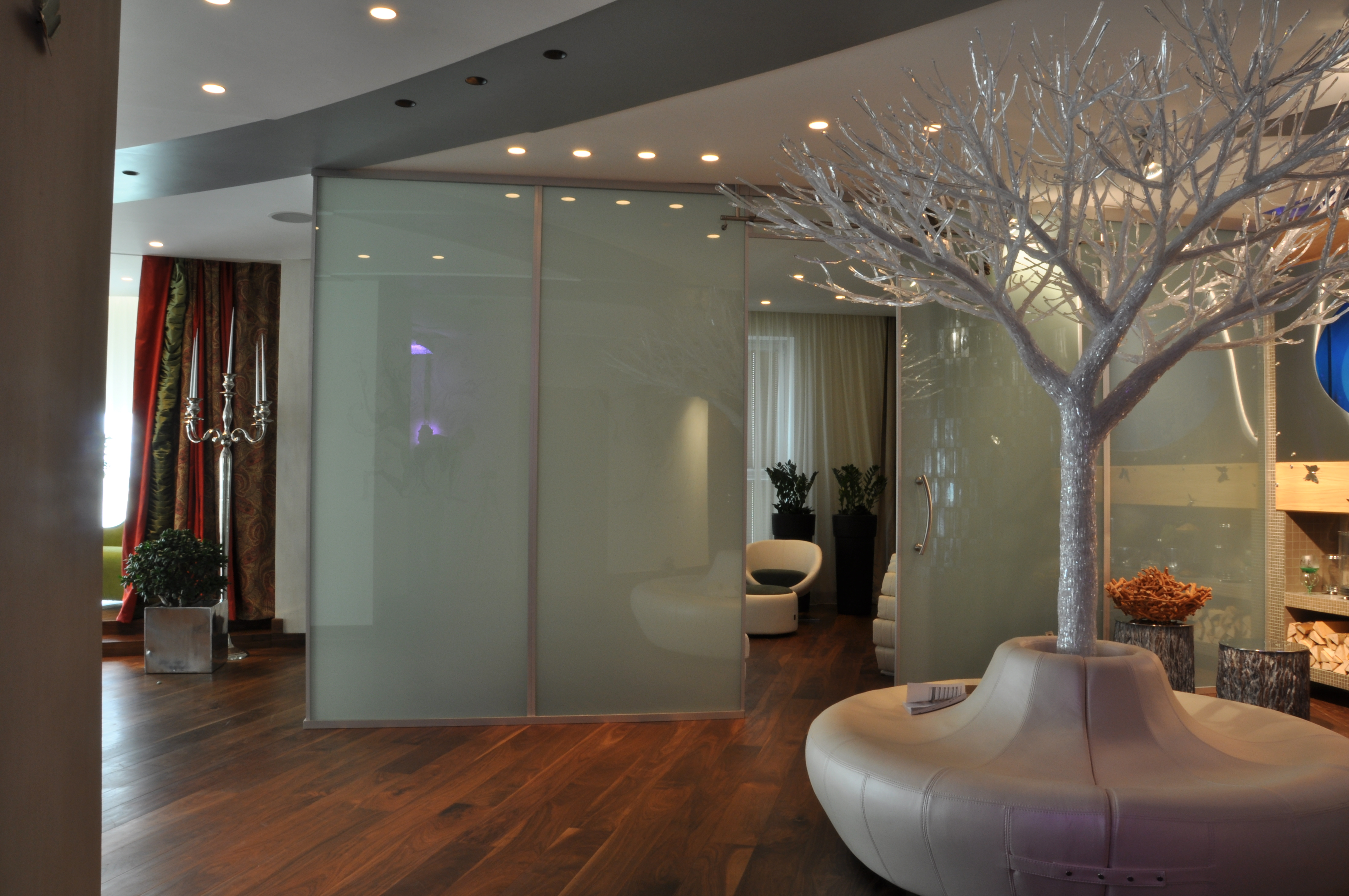 Soundproof Smart Glass Off